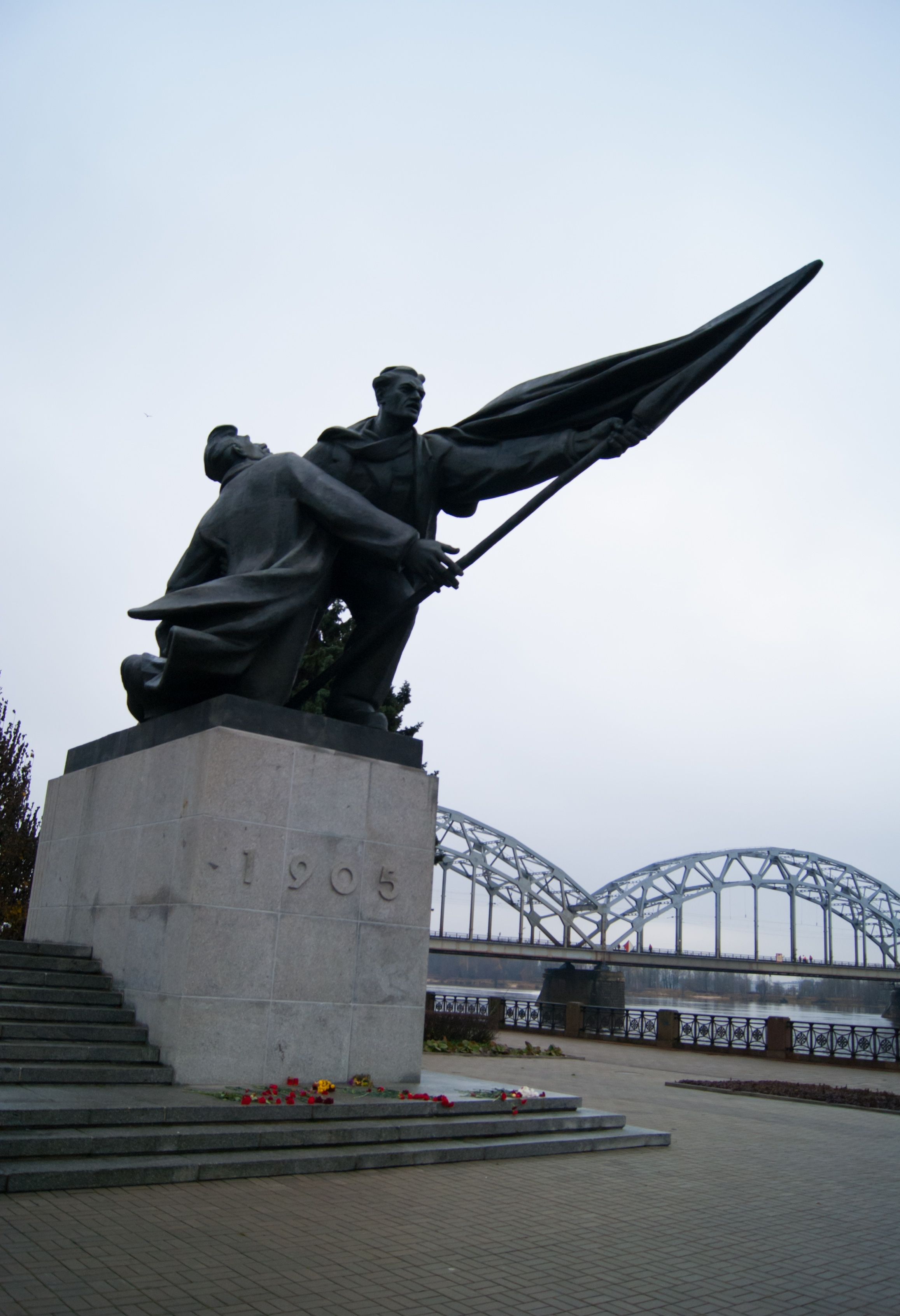 Two Struggling Soldiers memorial commemorating the 1905 revolution, Riga, Latvia